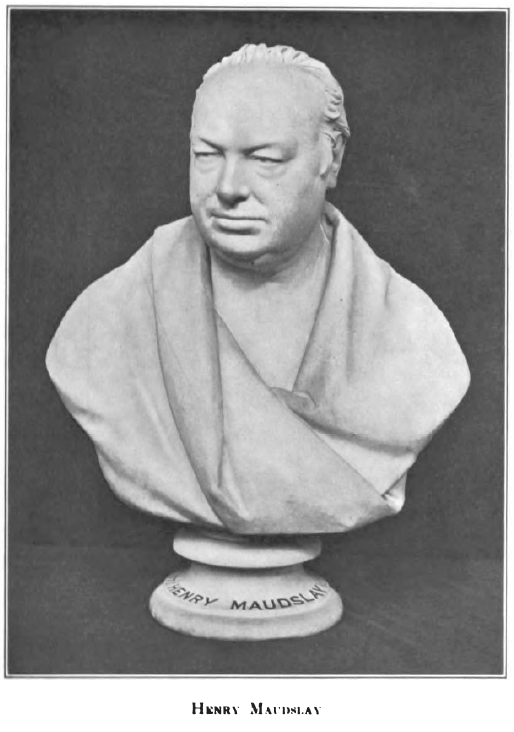 A bust of Henry Maudslay (English machine tool pioneer).